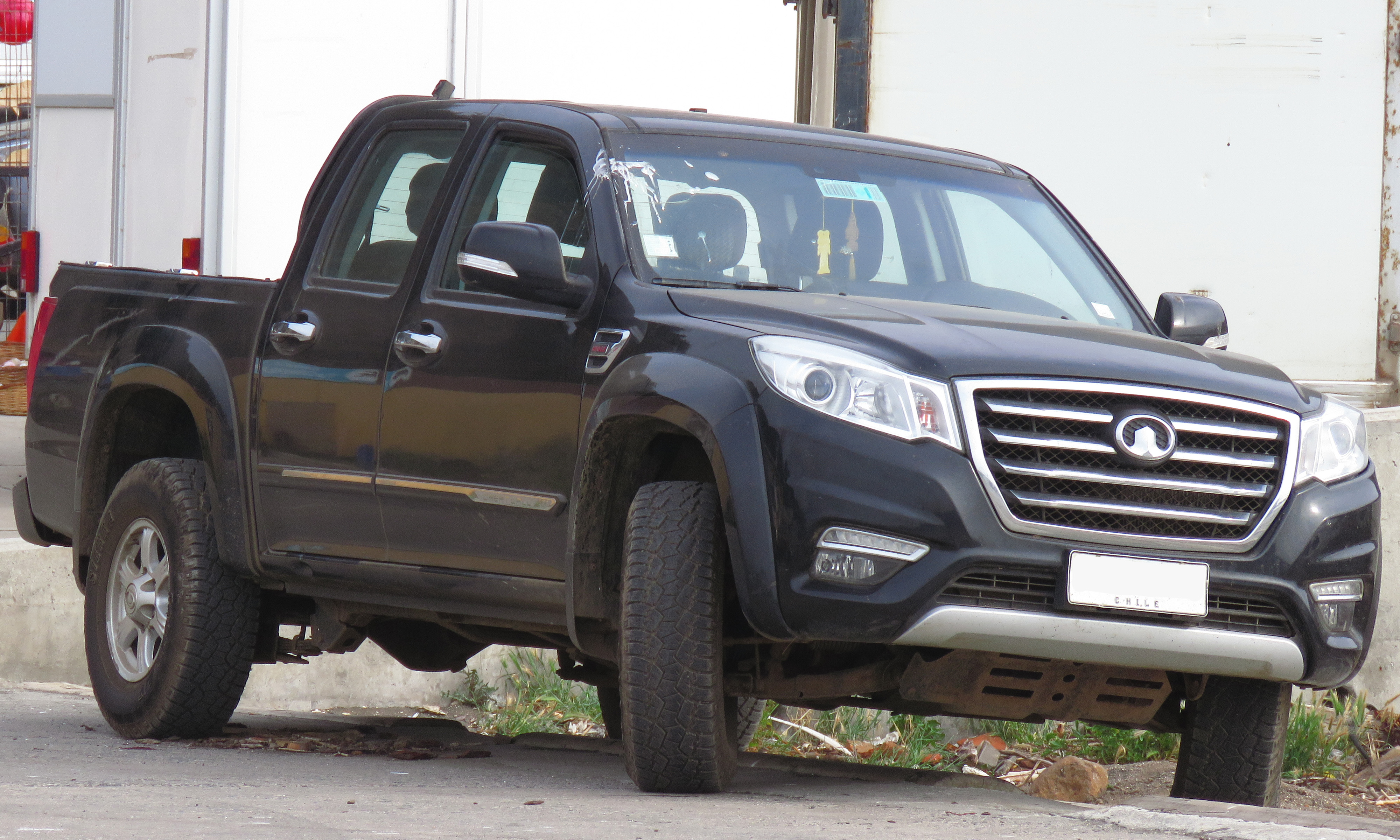 Great Wall Wingle6 2.4 Elite 2016